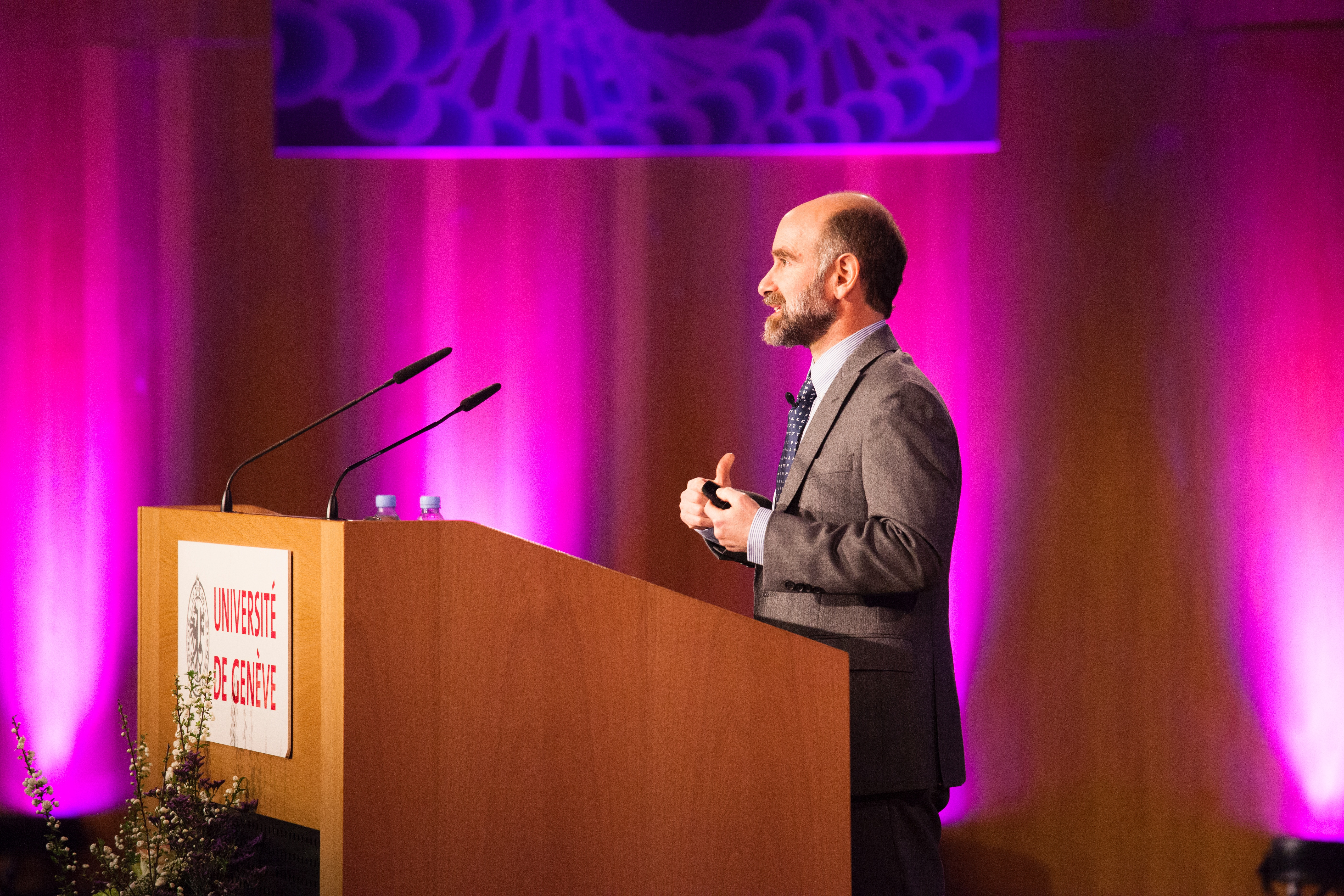 Jonathan Patz delivers a keynote presentation at the University of Geneva in 2015.